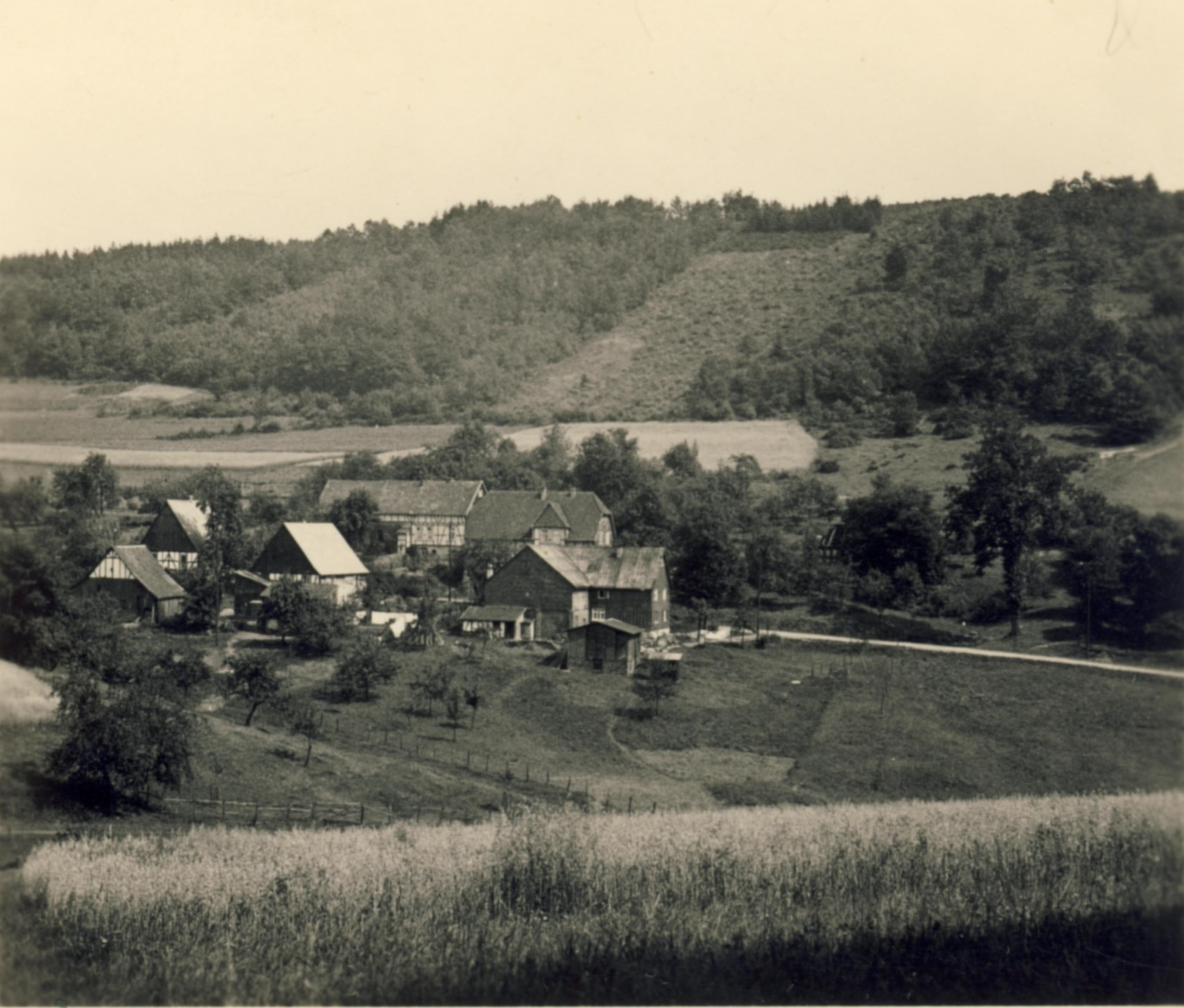 Freischlade in the 1930`s years